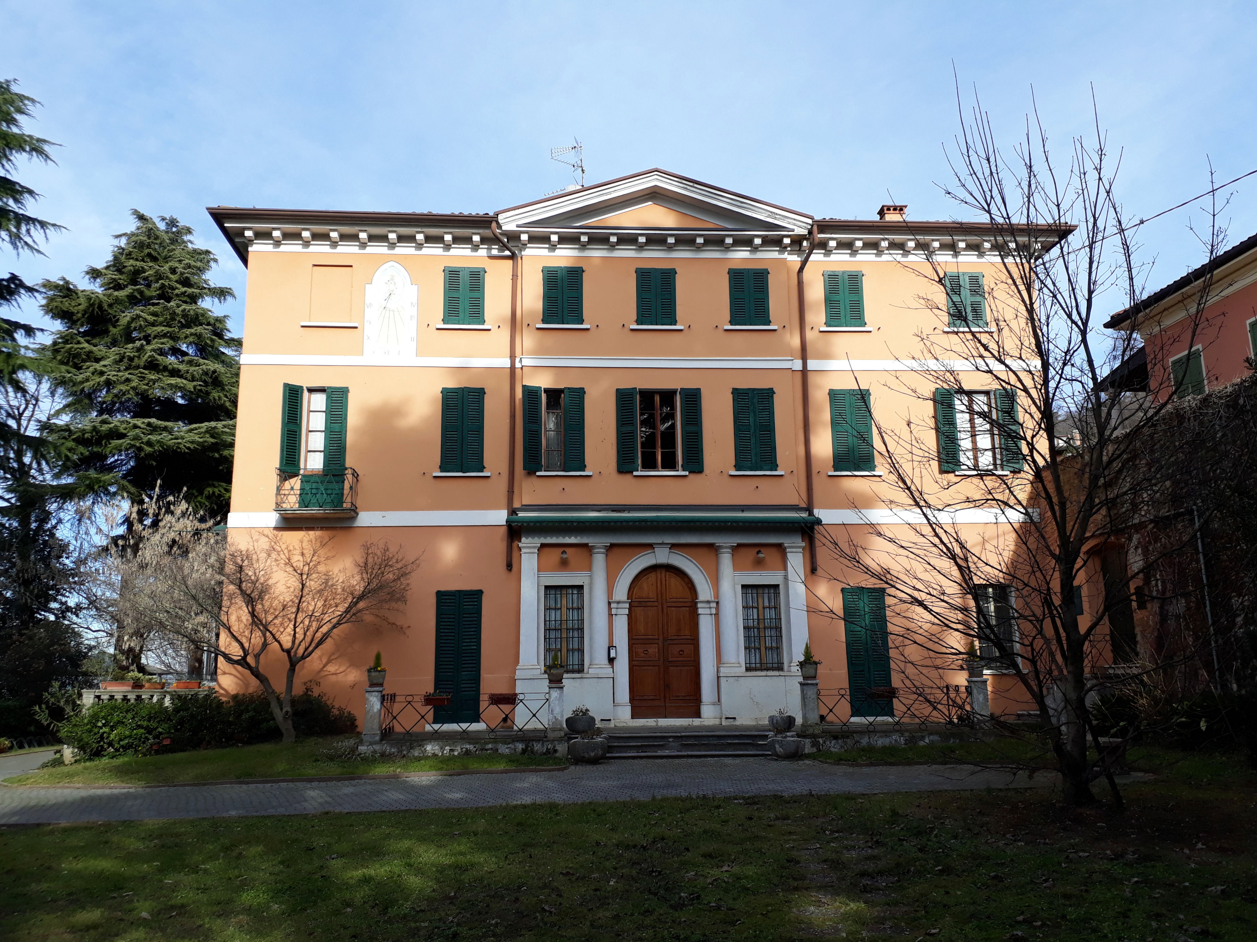 Montichiari, Mazzucchelli Palace.